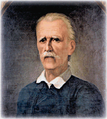 Perraivos Christophoros